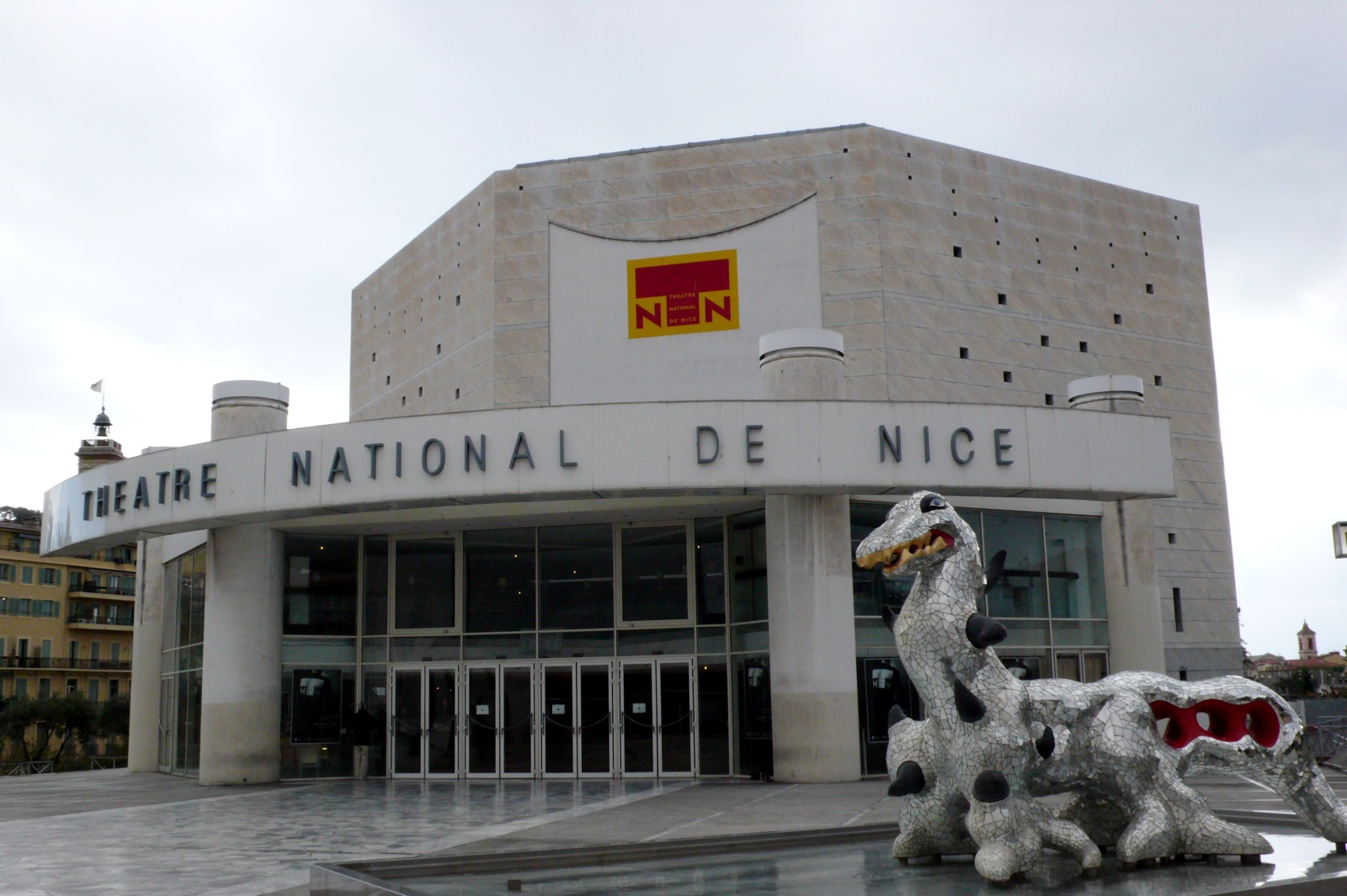 Nice National Theater, on the promenade des Arts, in Nice, France.